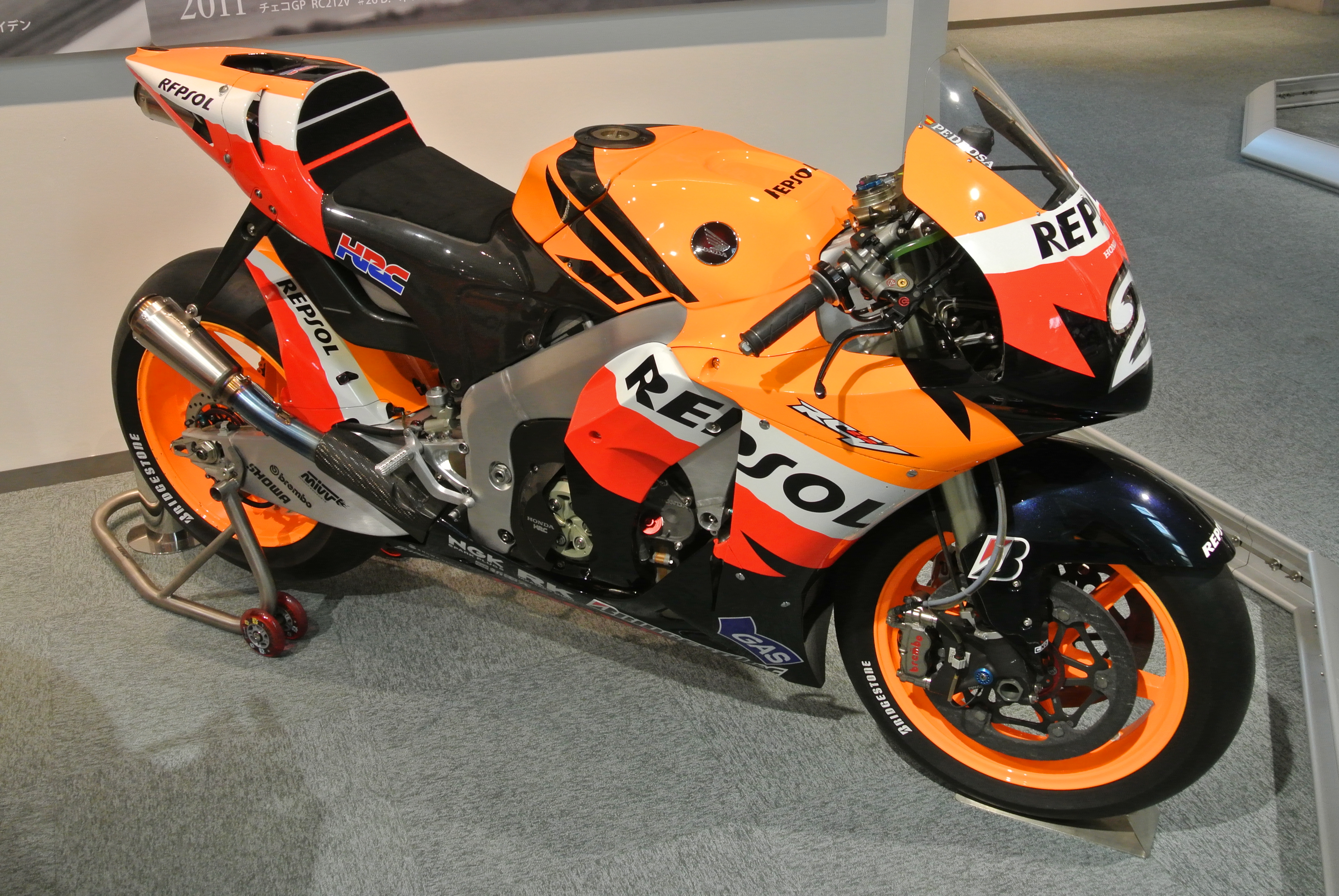 Honda RC212V in the Honda Collection Hall.